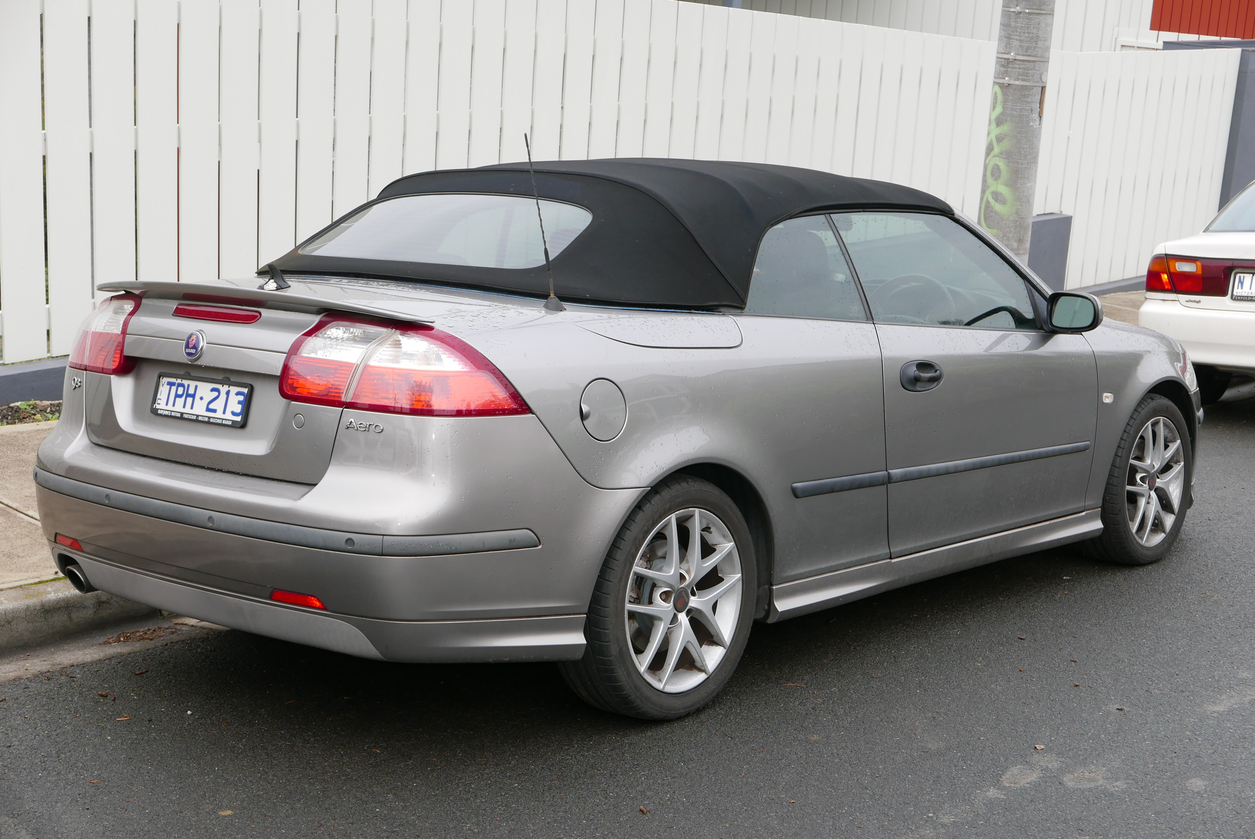 2005 Saab 9-3 (MY05) Aero 2.0t convertible. Photographed in Ivanhoe, Victoria, Australia. Vehicle registration enquiry resultsJurisdictionVictoriaRegistrationTPH213Chassis codeYS3FH79Y856015668Engine codeB207RCA005452912Compliance date2005-08Year of manufacture2005